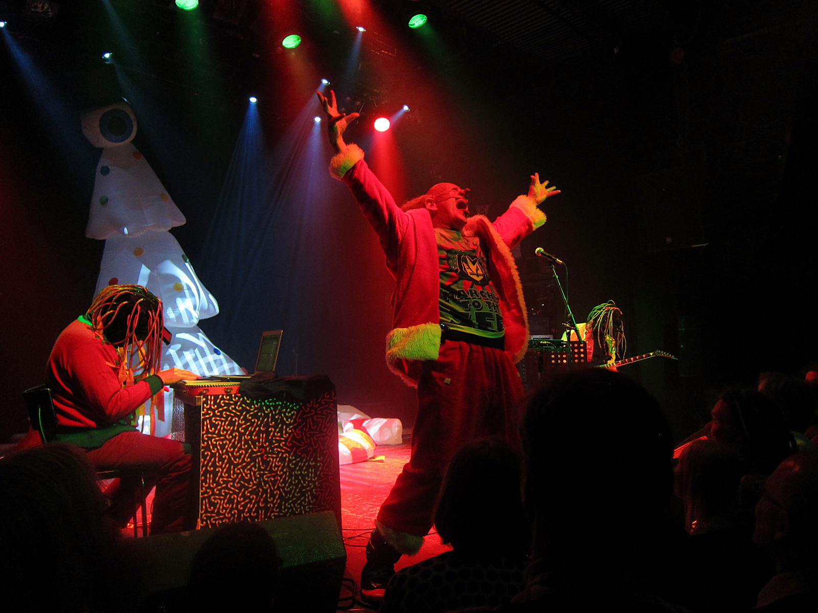 The Residents live in Finland at Tavastia-klubi 6th May, 2013.